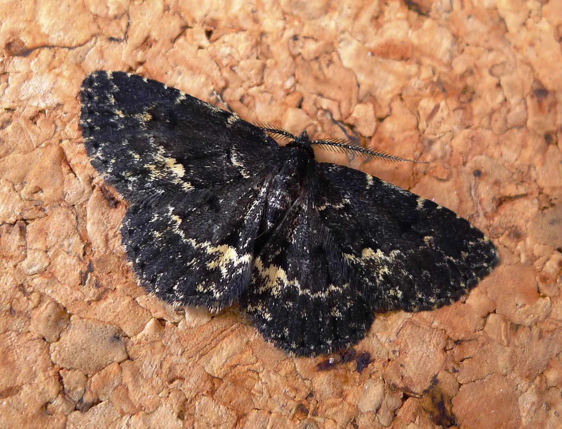 Nationally Scarce B.list. This one was in my greenhouse. Last recorded four years ago on July 2nd. Well pleased! SO 7347, Cradley, Malvern Worcs U.K